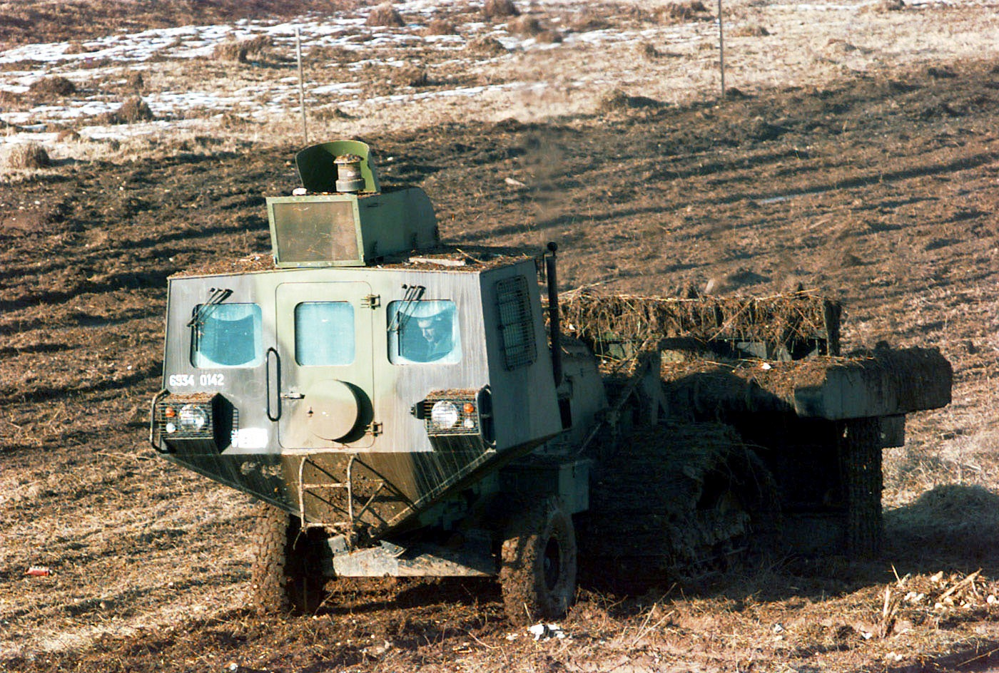 A French Army 17th Engineering Regiment Aardvark Joint Services Flail Unit (JSFU) is used to clear a possible mine field in Butmir, Bosnia-Herzegovina during Operation Joint Endeavor.